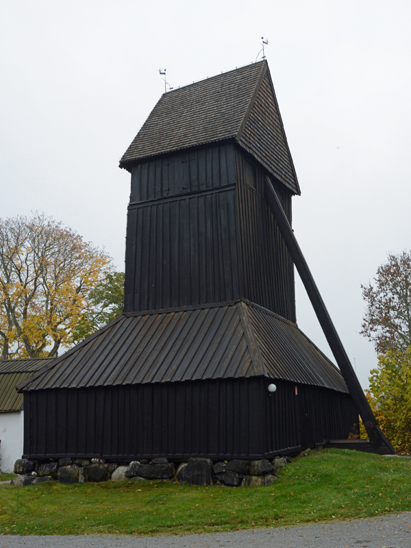 Härkeberga belfry